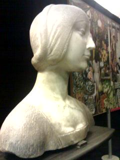 Bust of Eleonora d'Aragona (1346-1405)